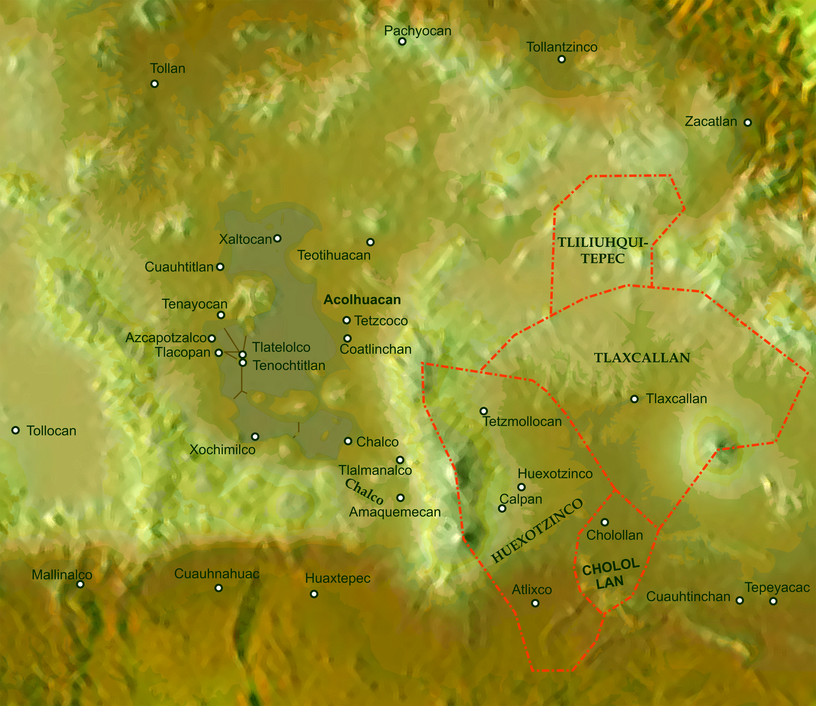 Central Mexico: political situation before the Conquest.